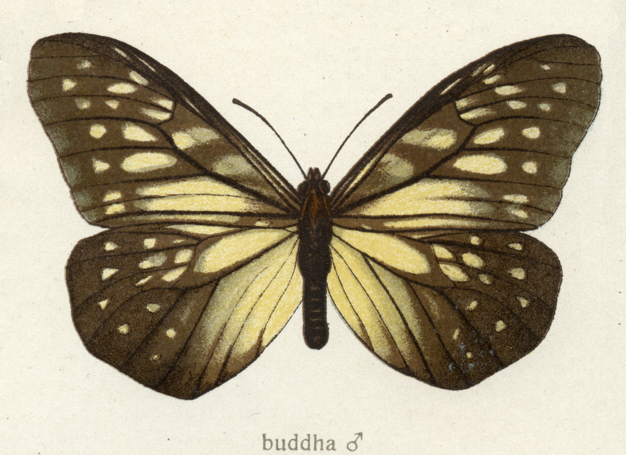 The Freak (Calinaga buddha)